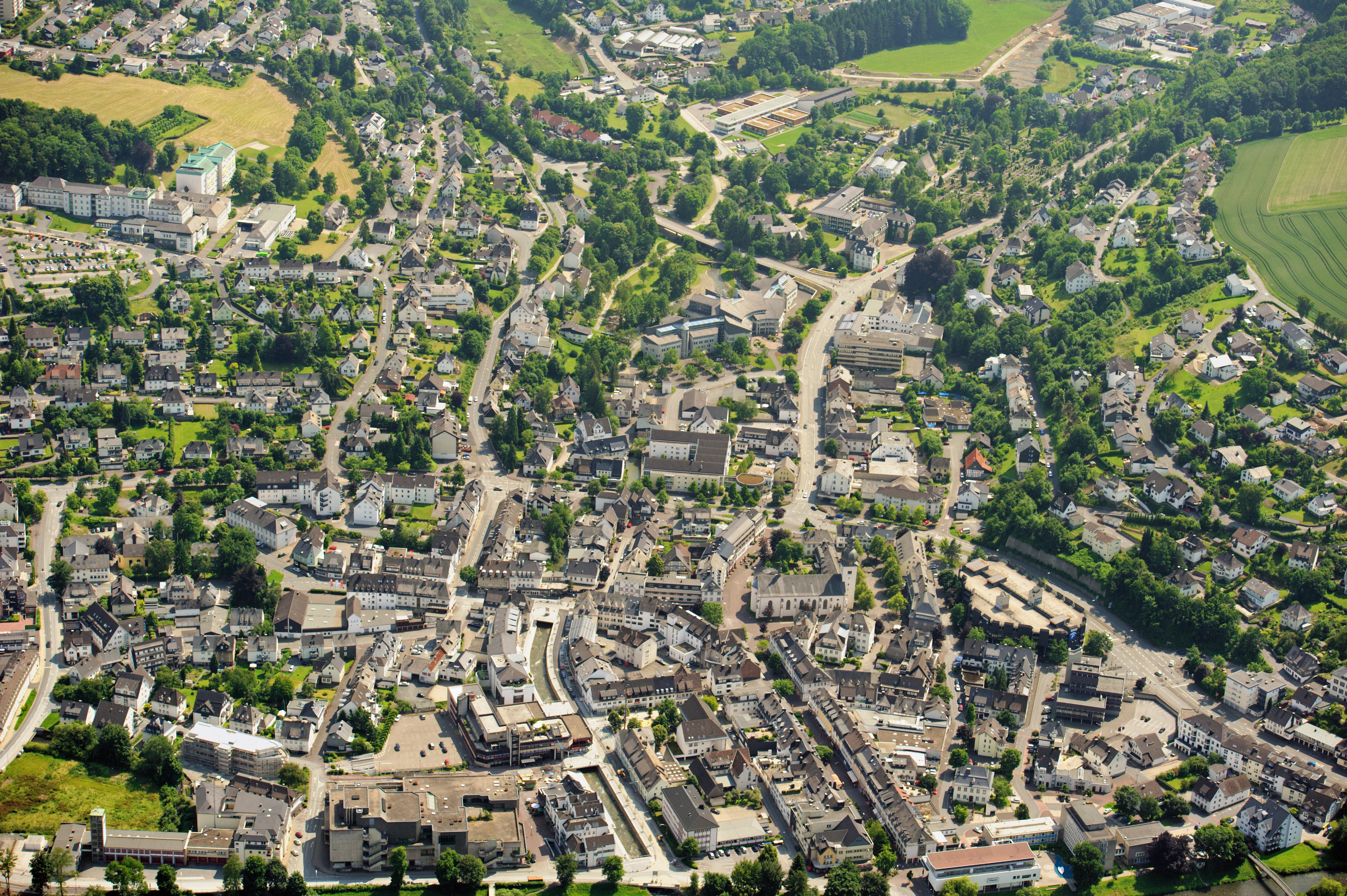 Fotoflug Sauerland-Ost – Meschede Innenstadt The making of this document was supported by the Community-Budget of Wikimedia Germany.